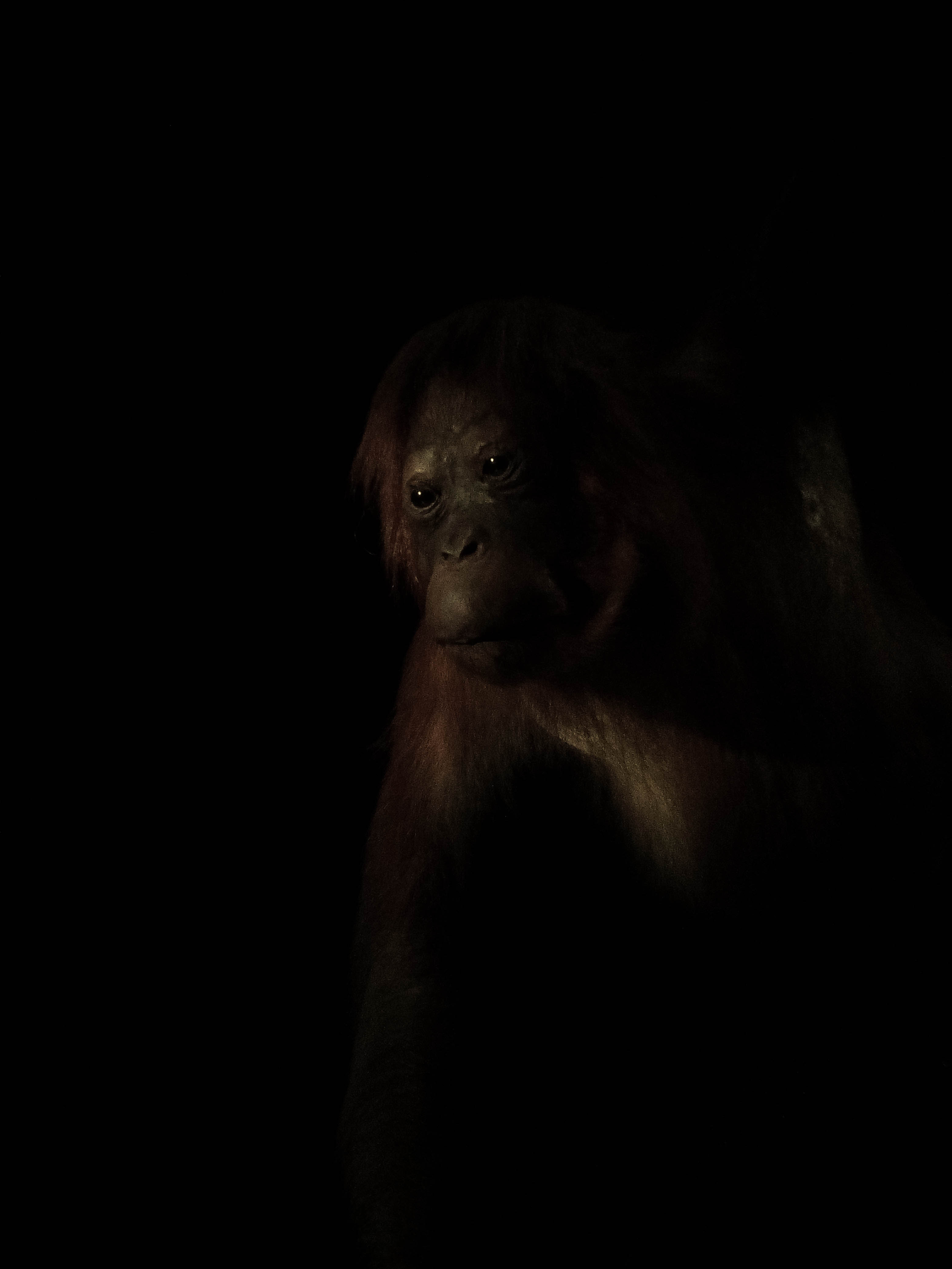 Bornean orangutan (Pongo pygmaeus) National Museum of Natural History (France)